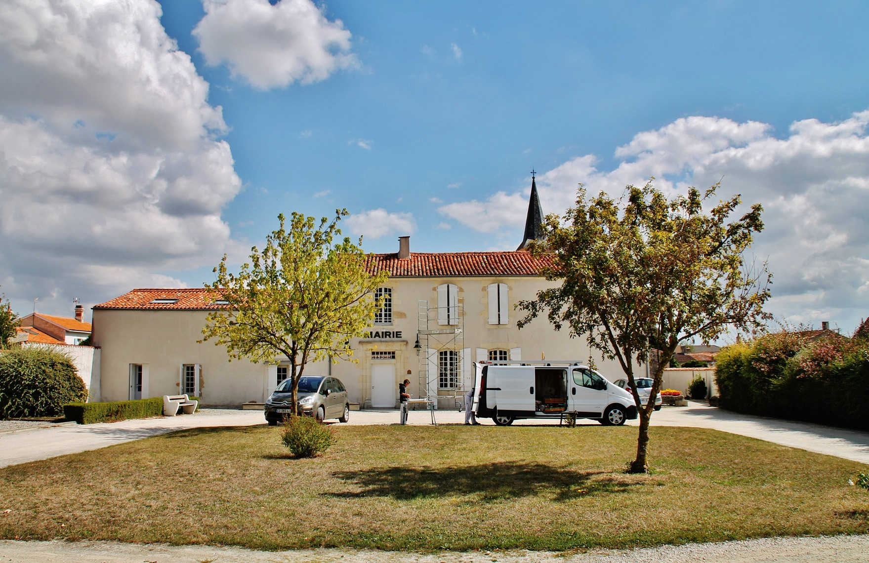 La Mairie